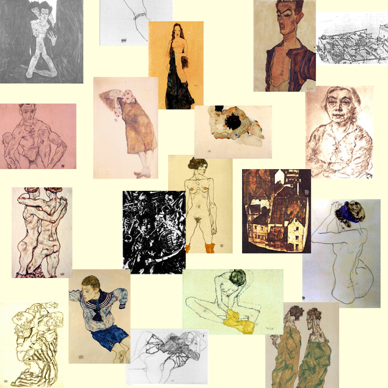 The art-collection of Fritz Grünbaum